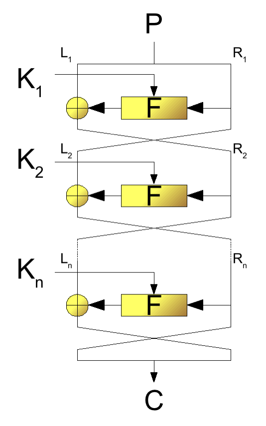 Figure of Feistel Structure of Block Ciphers